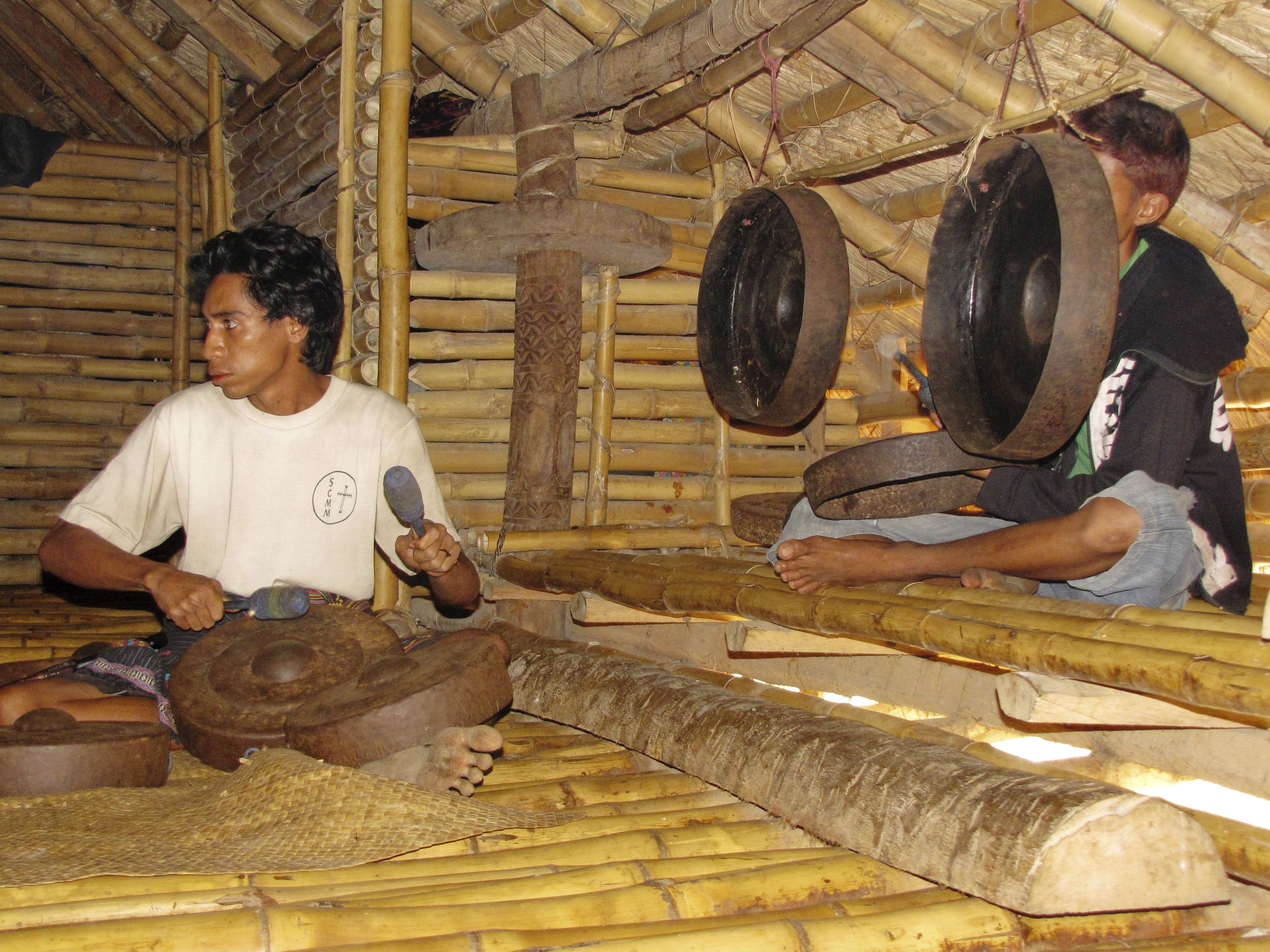 Practicing the gamelan inside a traditional house